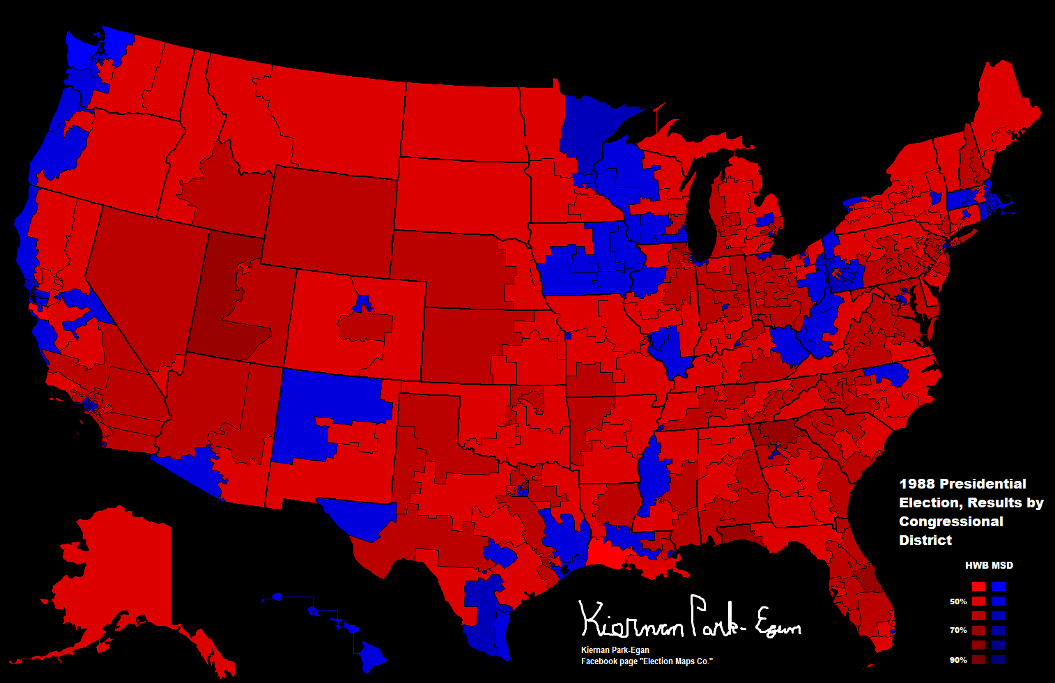 The 1988 U.S. Presidential Election by Congressional District.